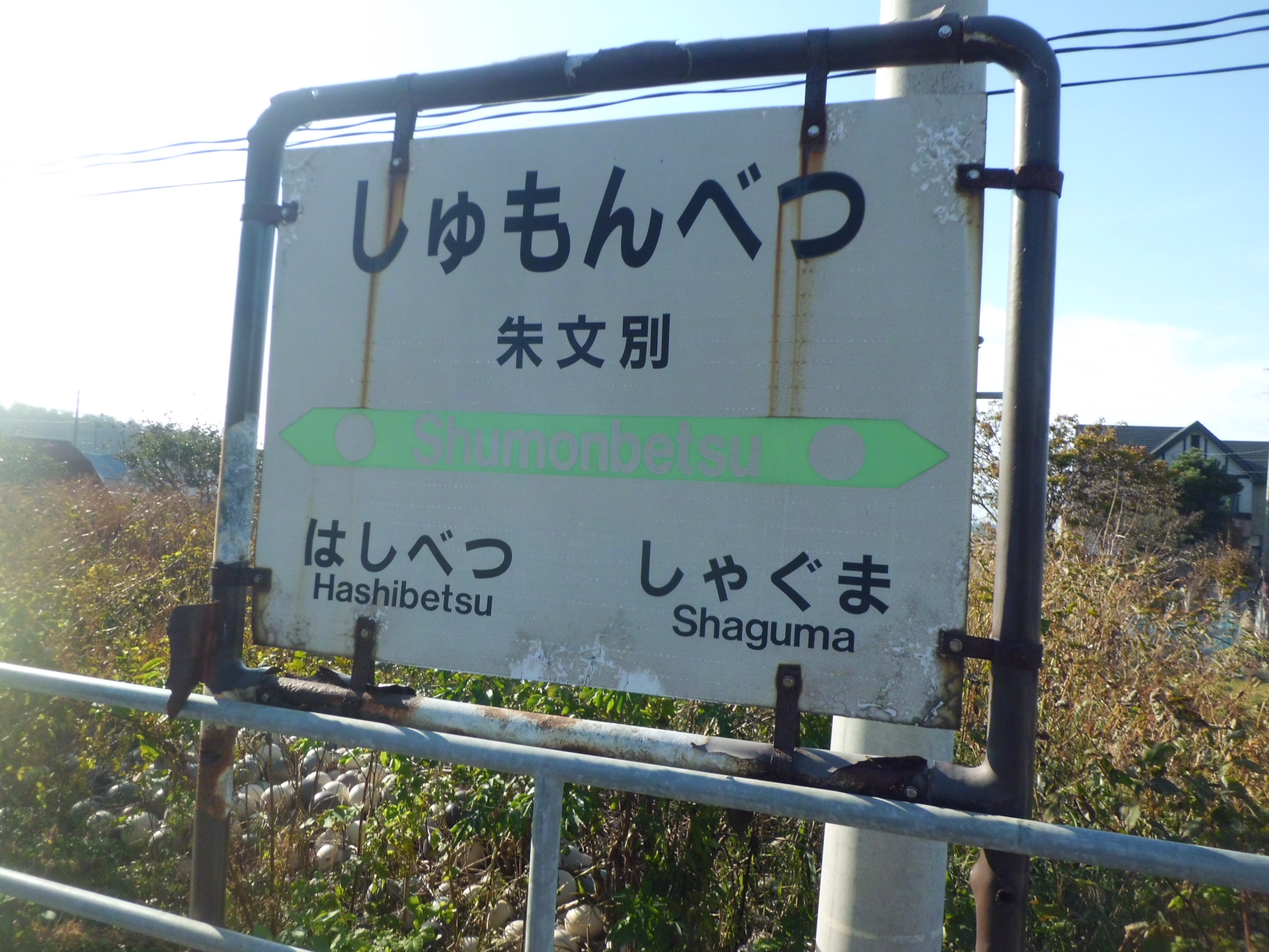 The station sign at Shumonbetsu Station on the Rumoi Main Line in Hokkaido, Japan